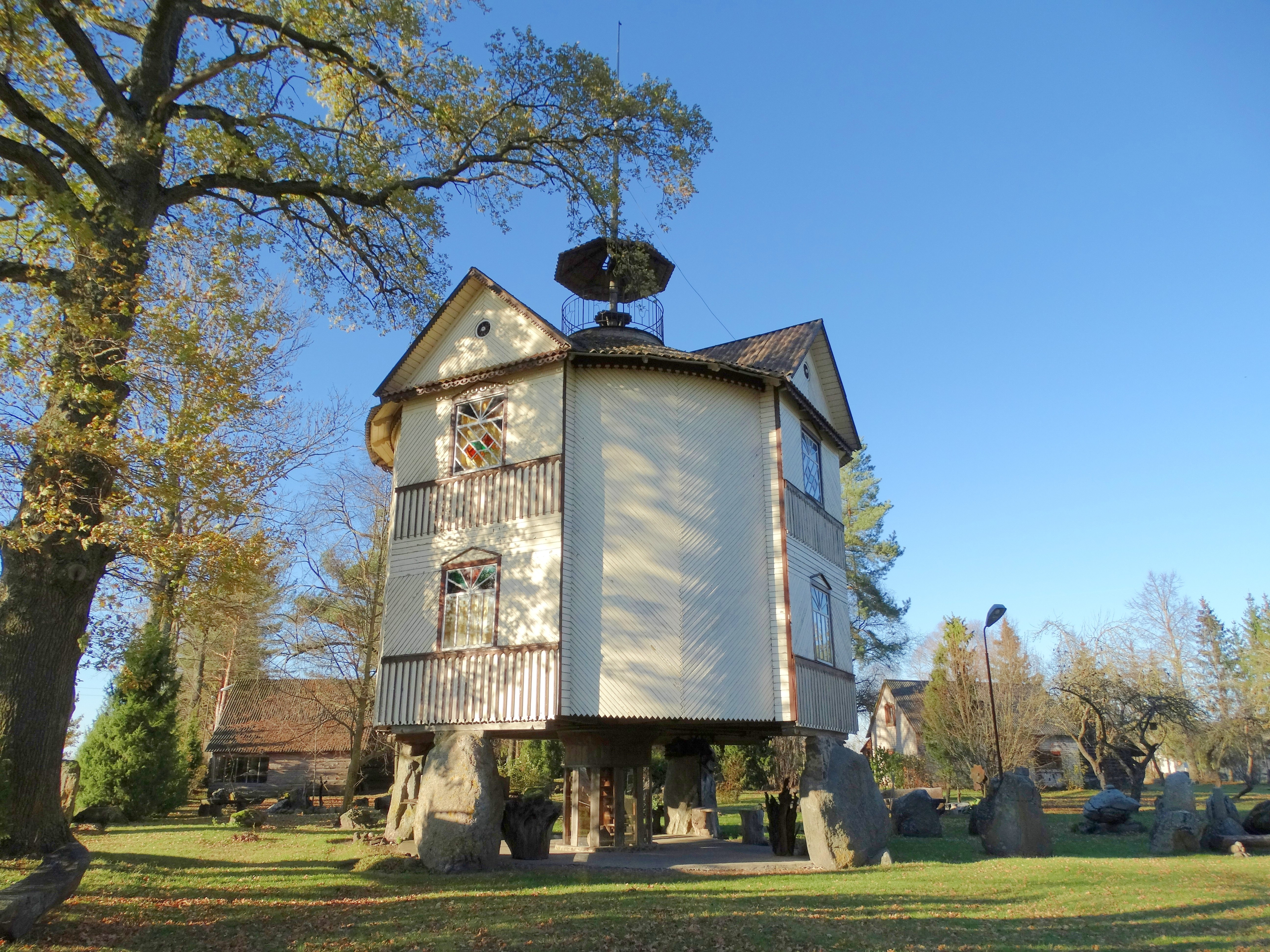 Museum, Uoginiai, Kupiškis district, Lithuania